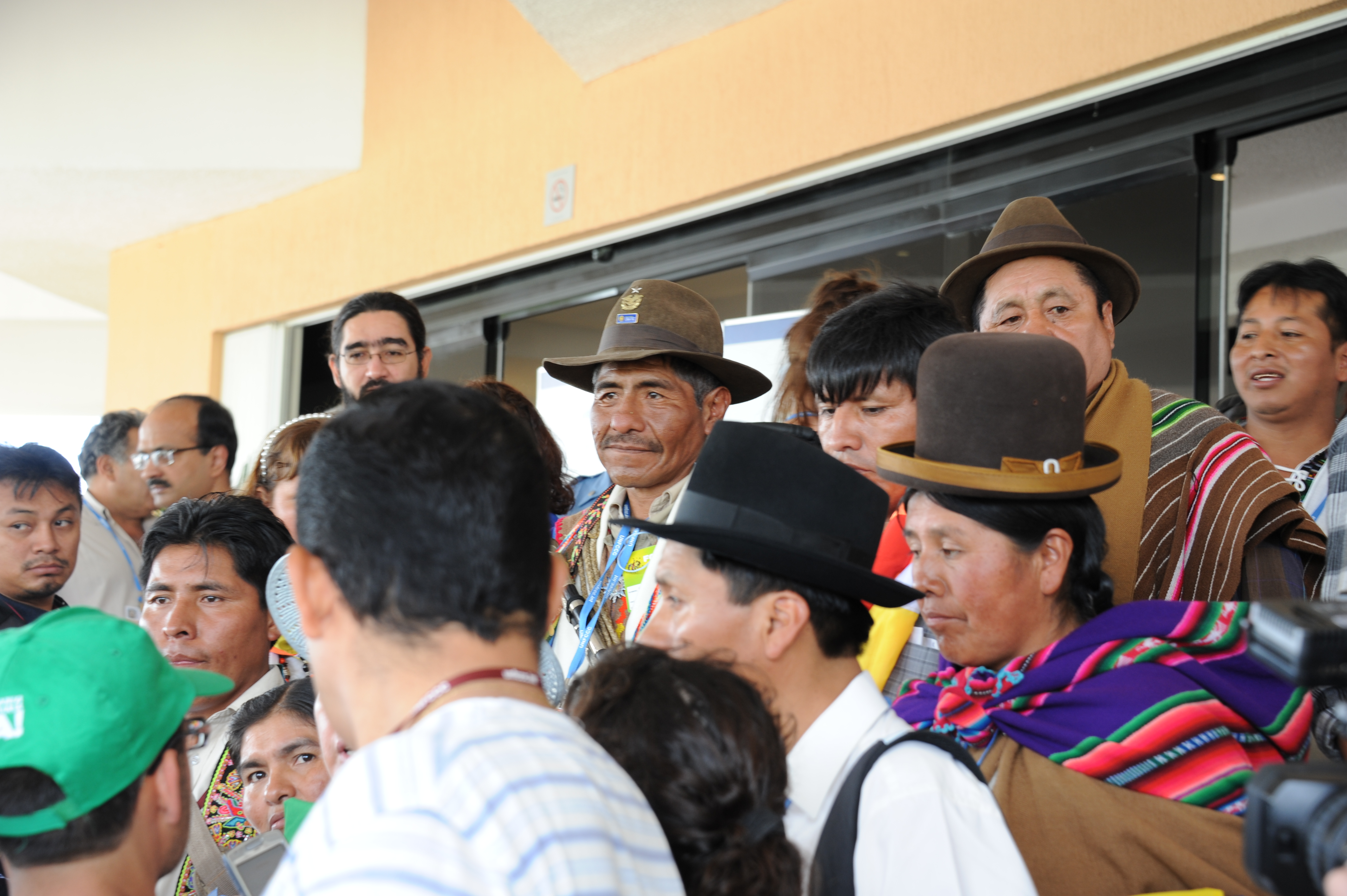 UN Climate Talks 2010. Cancun, Mexico. by United Nations